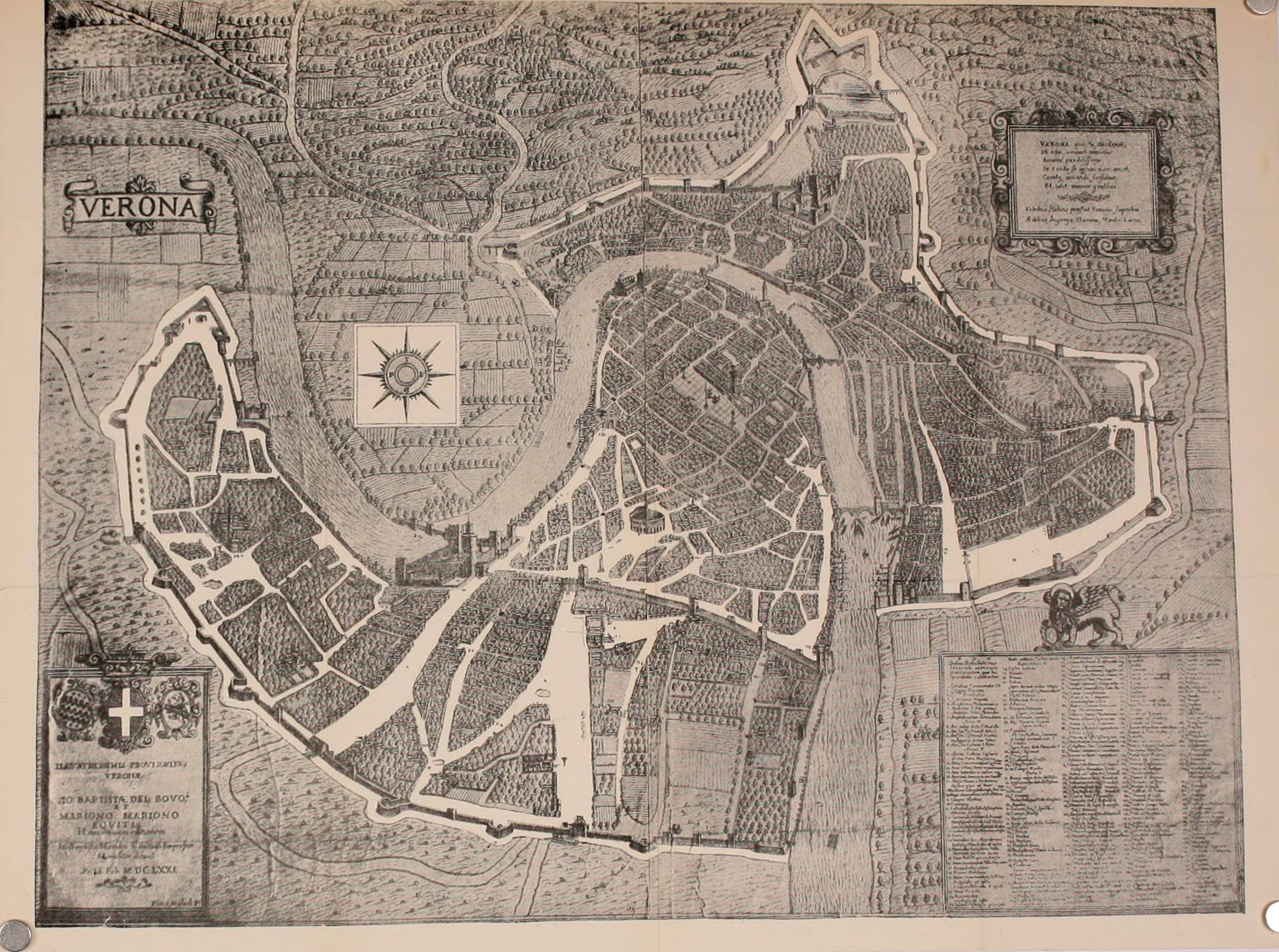 Title: The story of Verona Year: 1907 (1900s) Authors: Wiel, Alethea, b. 1851 Subjects: Verona (Italy) -- History Verona (Italy) -- Description and travel Publisher: London : J. M. Dent Text Appearing Before Image: ' Text Appearing After Image: CHAPTER V From the Fall of the Scaligers to thePresent Day npHE head of the house of Visconti at the momentwhen Verona was added to the duchy of Milanwas Gian Galeazzo, one of the most treacherous andambitious tyrants of his age. In the league formedbetween him, the Republic of Venice, and the Carraresiof Padua, it had been arranged that Verona should beceded to the Visconti, and Vicenza to Padua. Thiscompact was now carried out, though Gian Galeazzoby guile and force soon after wrested Vicenza from itsdestined owner. At Verona the princely system ofbuilding carried on so grandly by the Scaligers wasstill maintained. The fortifications already existinground the town were renewed ; the castles of S. Pietroand S. Felice (this latter sometimes known as Castel-nuovo) were erected by order of the lord of Milan,who doubtless hoped in this way to ingratiate himselfwith the Veronese besides providing for his own safety.Gian Galeazzo did not however win the love of hisnew subjects, who, though